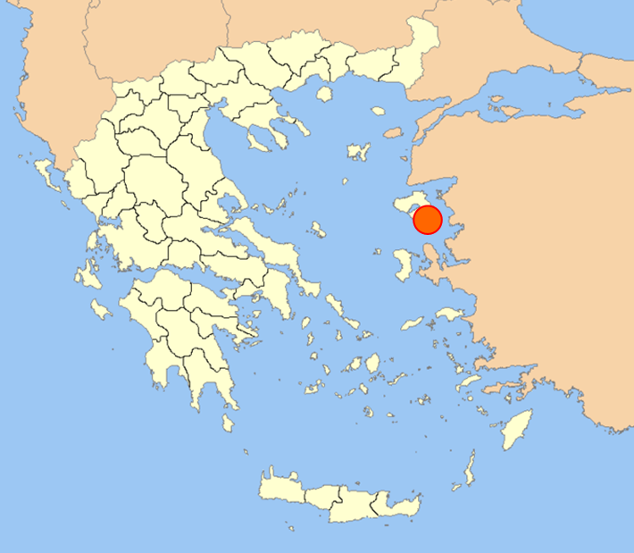 location of the Seven Sages in ancient Greece